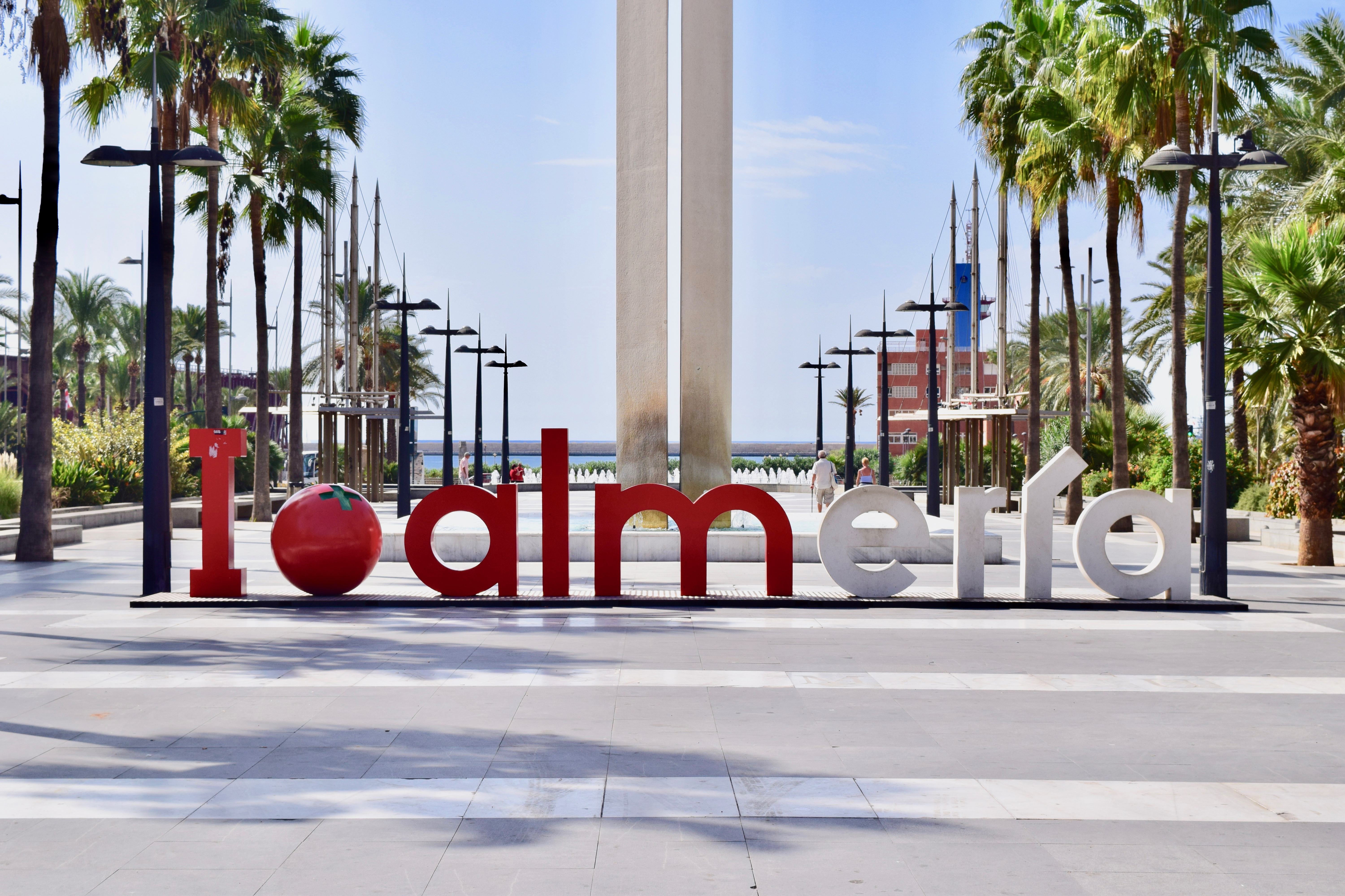 Plaza de las Velas (Almería)